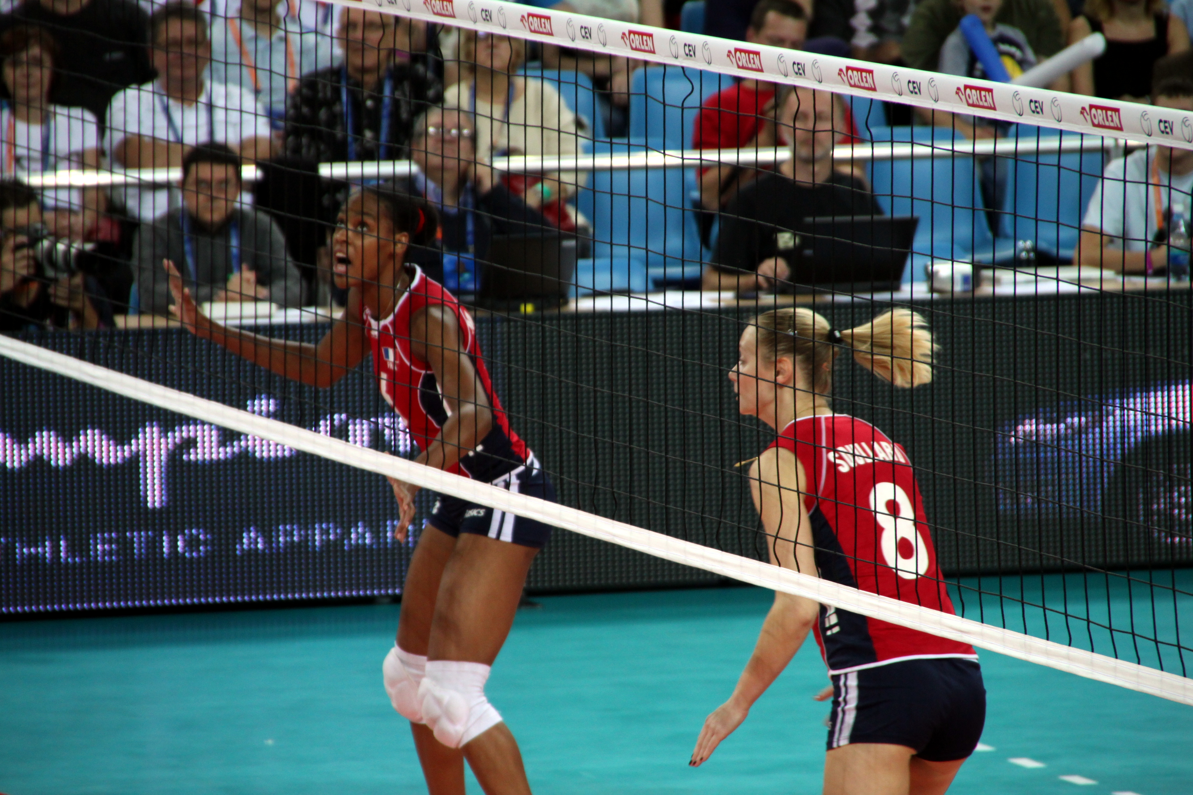 French players Amandine Mauricette (6) and Pauline Soullard (8) during the game between France and Italy for the Women's Eurovolley 2009 in Poland... [France 1:3 Italy, Wroclaw, Poland 28.09.2009]